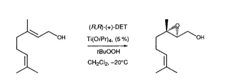 The sharpless reaction studied in H.B. Kagan's 1986 paper